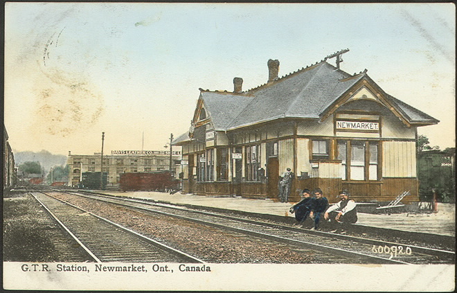 Postcard of G.T.R. Station, Newmarket, Ont., Canada